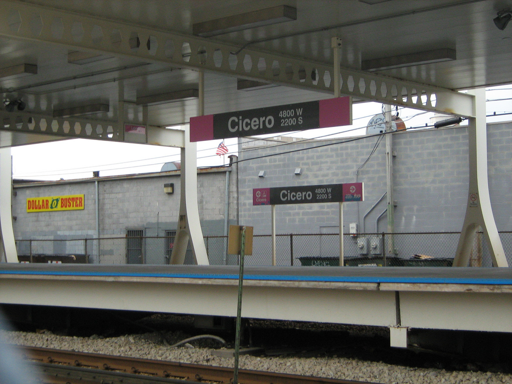 Cicero CTA Pink Line Station